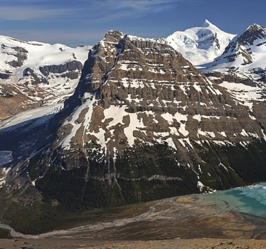 Rearguard Mountain is next to Mount Robson